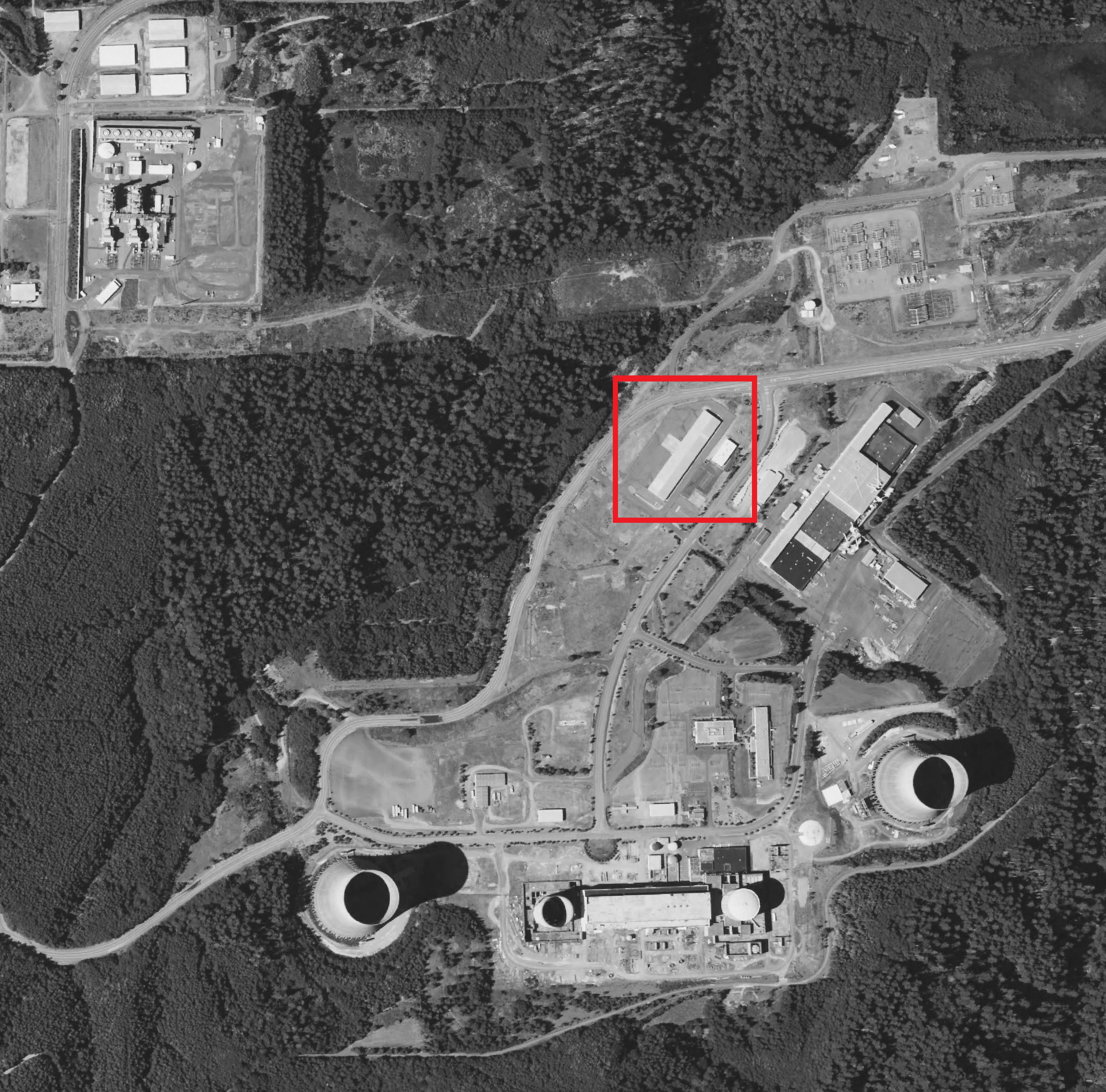 Aerial view of Satsop Nuclear Power Plant with Northwest Cannabis' facility outlined in red. Imaged 14 July 2013.